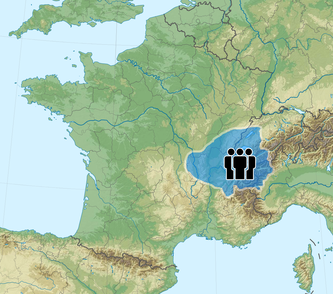 Map showing the area of the Arpitans, an ethno-linguistic community in Europe. Arpitan language